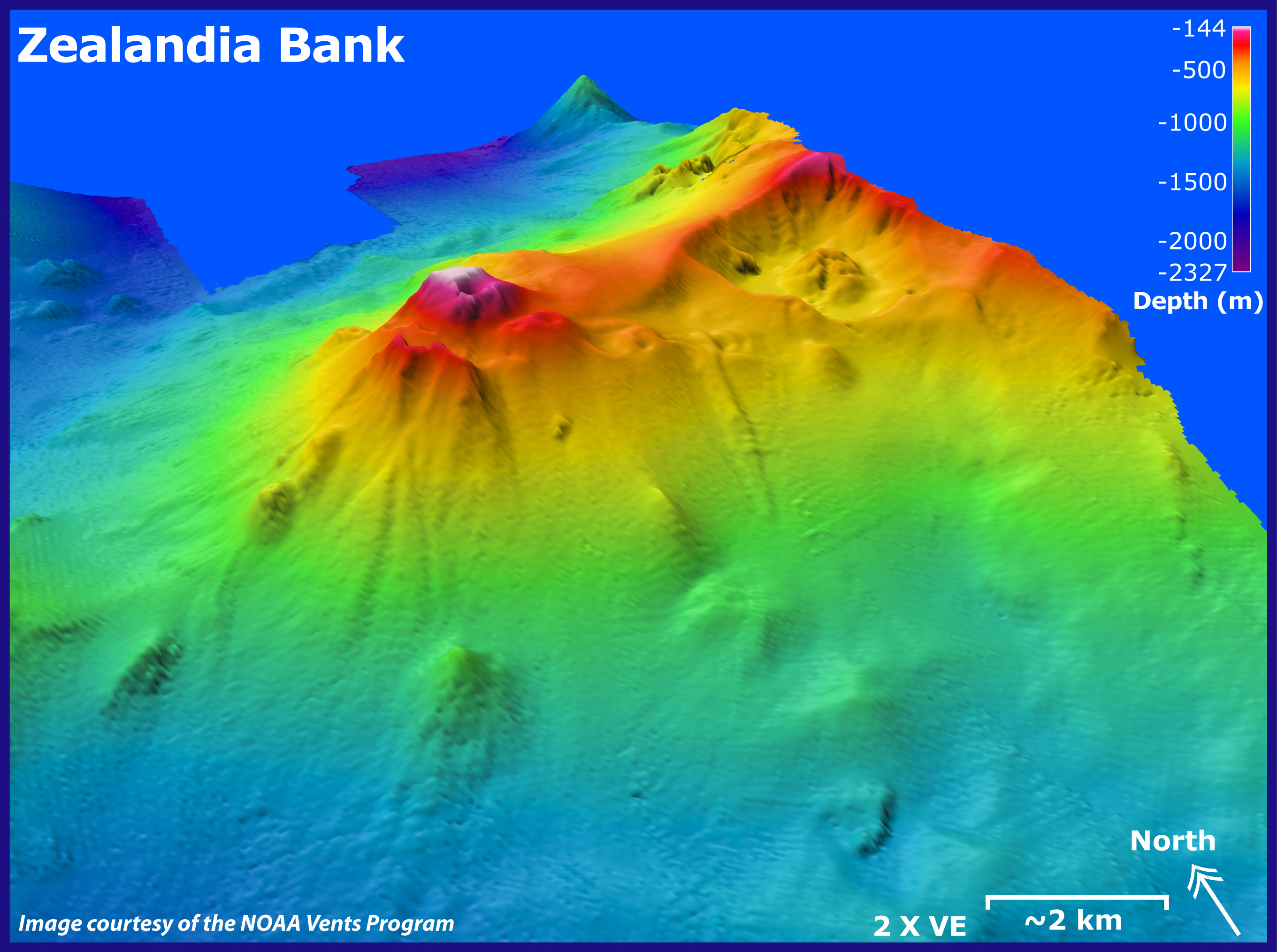 Zealandia Bank submarine volcano, looking toward the northeast. Depths in this image range from 144 to 2327 meters (472 to 7633 feet). Image is two times vertically exaggerated. EM300 bathymetry data resolution is ~25 meters. Distance indicated is kilometers in foreground.